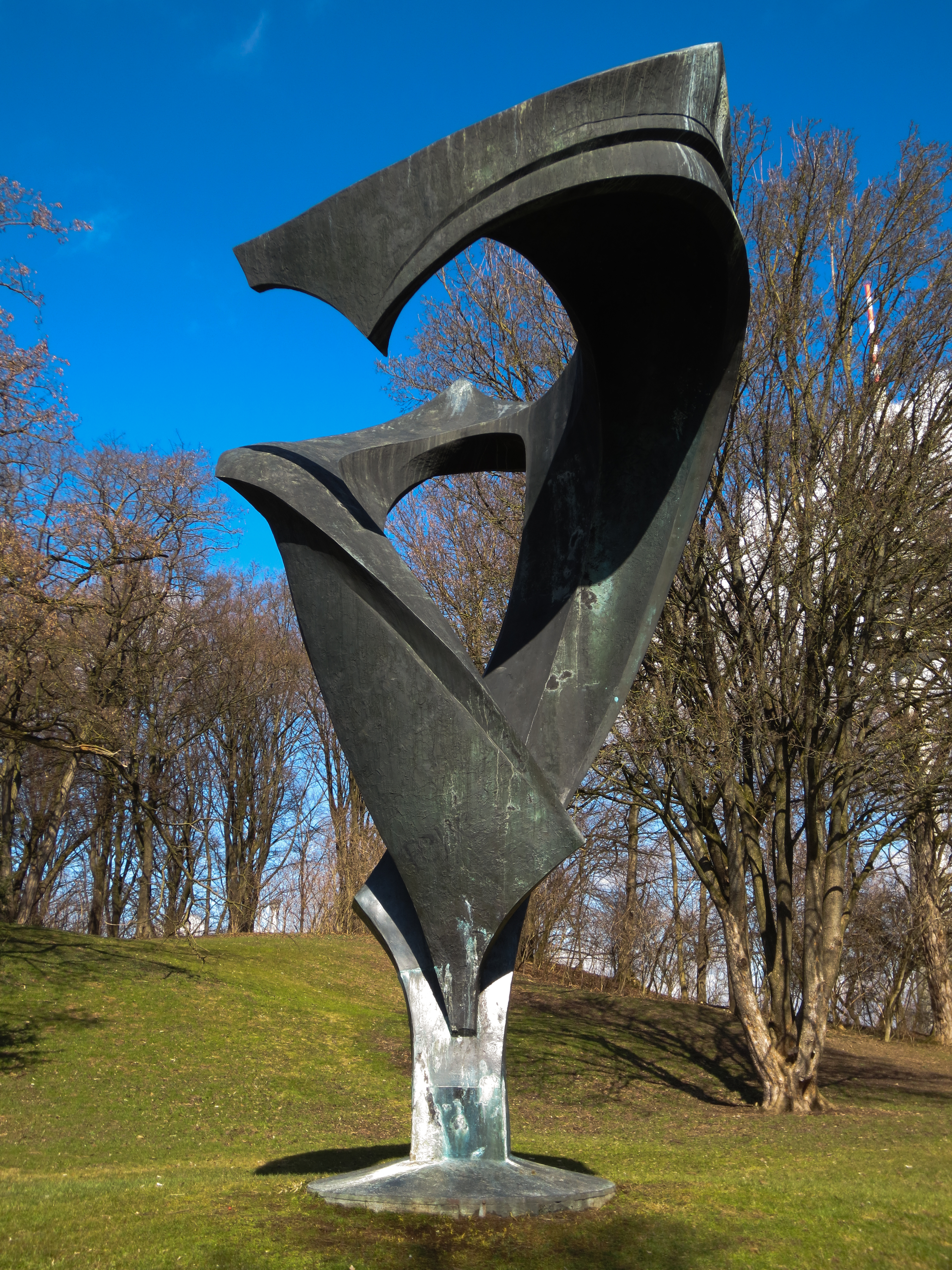 Blossom-Theme of Rudolf Belling. It's also called "Schuttblume". It is a memorial for the civil victims of the aerial warfare.